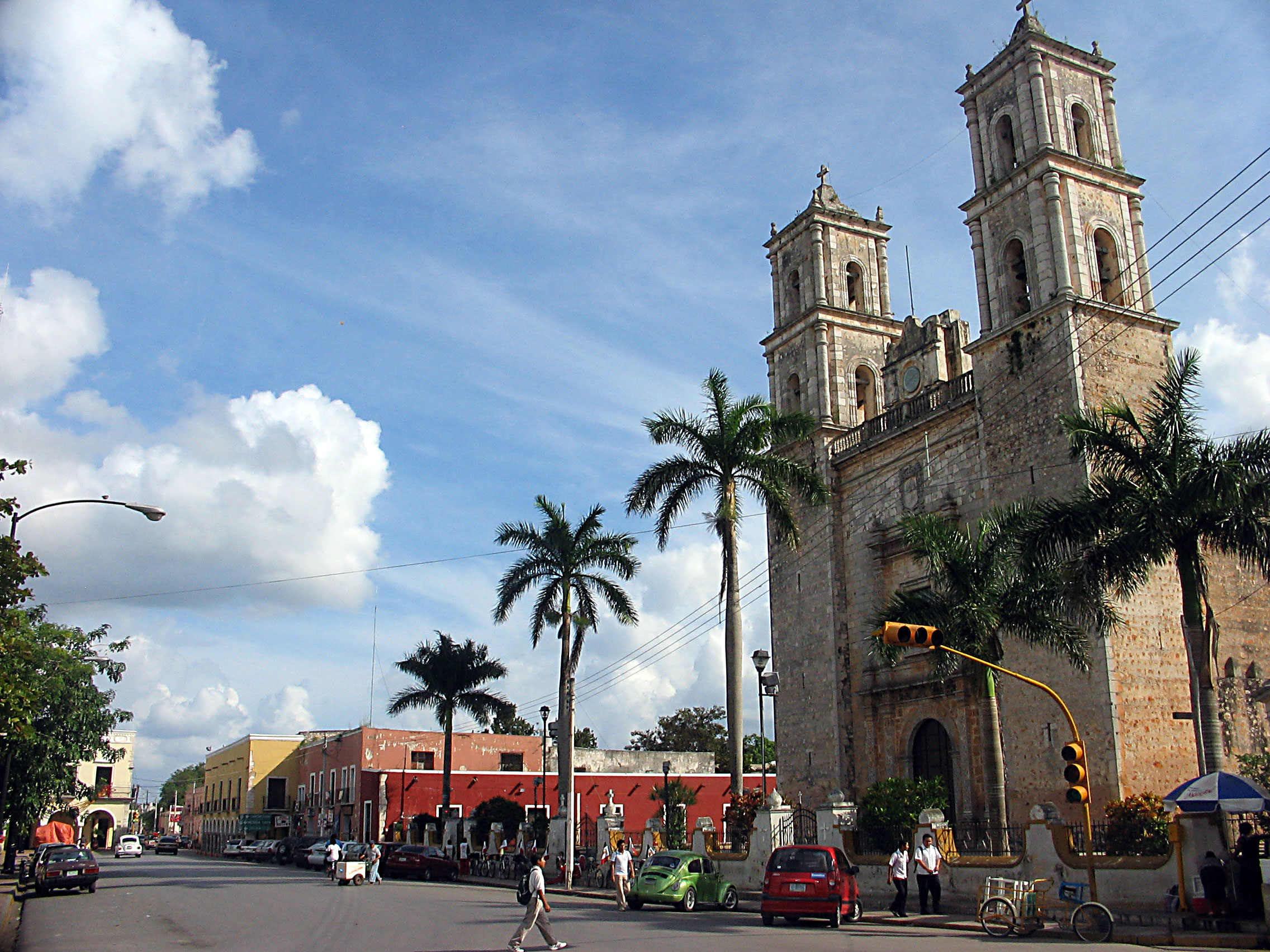 Cathedral of San Gervasio lookibng east along Calle 41, Valladolid, Yucatán, Mexico